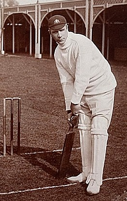 Picture of the former Australian cricketer Peter McAlister, taken in the early 1900s.